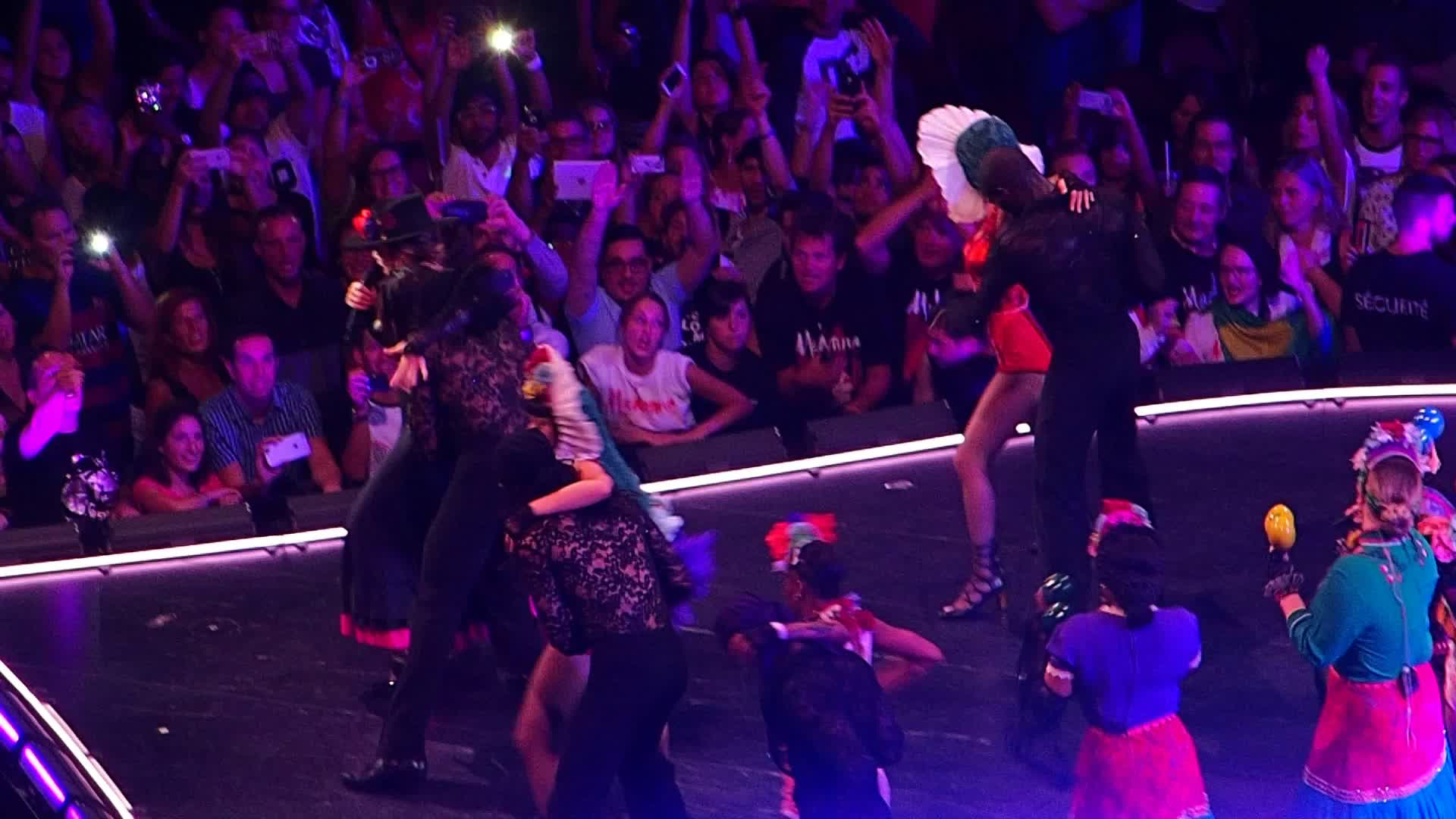 Madonna, Rebel Heart Tour, Lucky Star, Dress You Up, Bell Center, Montréal, 10 September 2015 Madonna performing on the Rebel Heart Tour